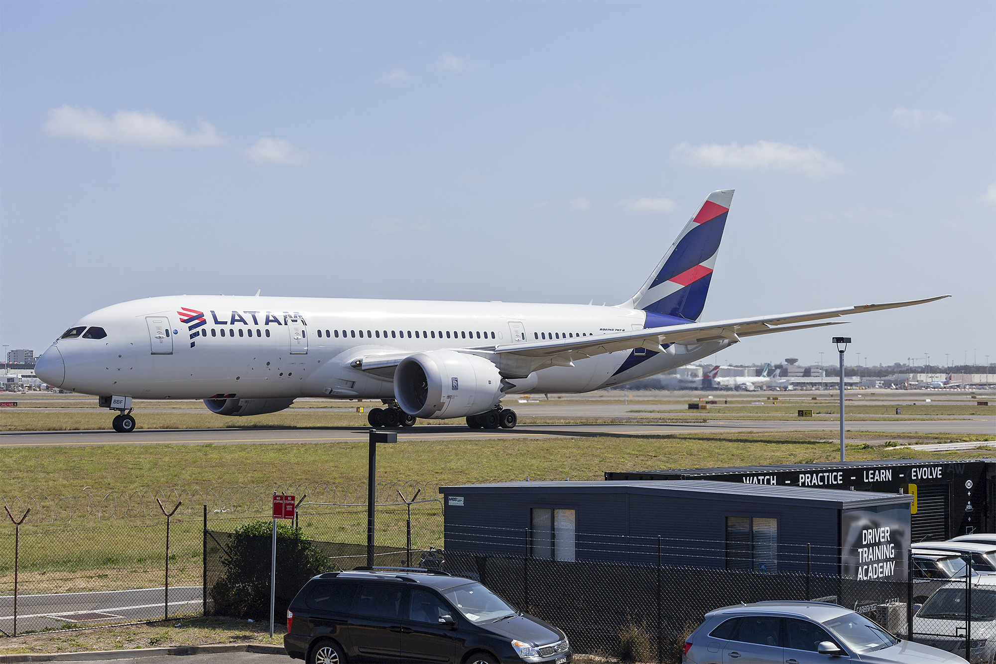 LATAM Chile (CC-BBF) Boeing 787-8 Dreamliner at Sydney Airport.